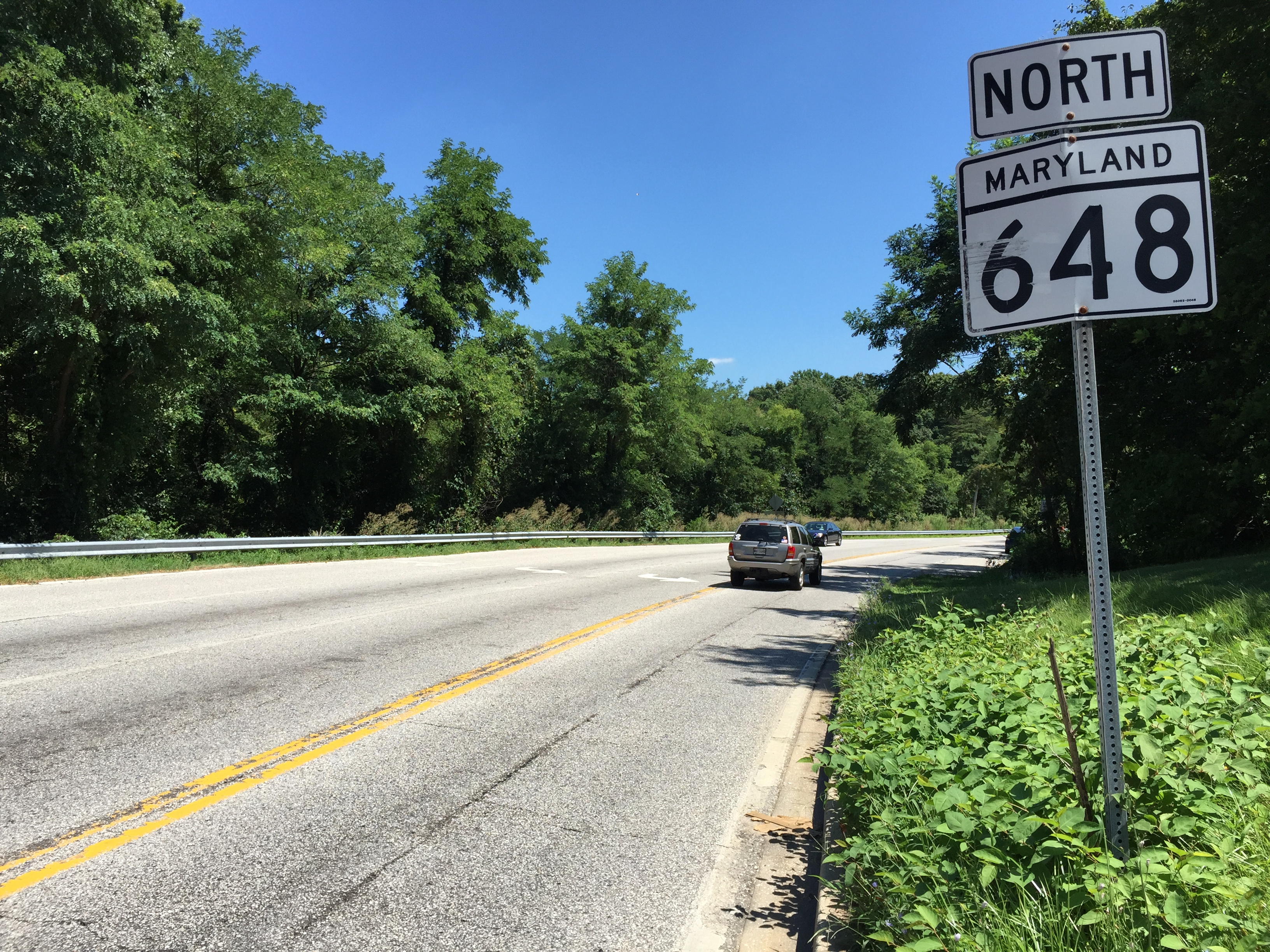 View north along Maryland State Route 648 (Baltimore-Annapolis Boulevard) just north of Maryland State Route 2 (Governor Ritchie Highway) in Severna Park, Anne Arundel County, Maryland